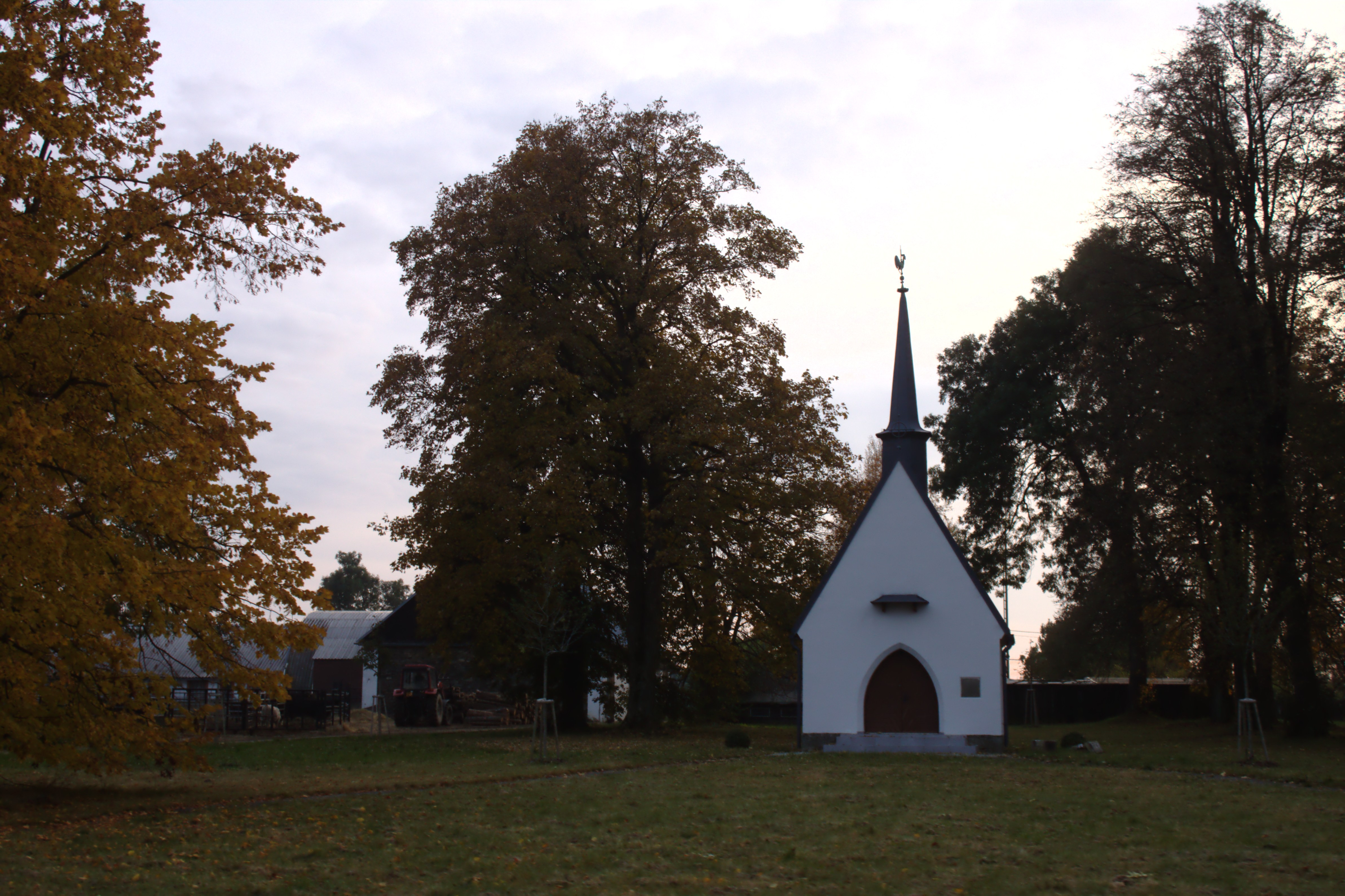 A chapel in Krahulčí, Olomouc Region, CZ